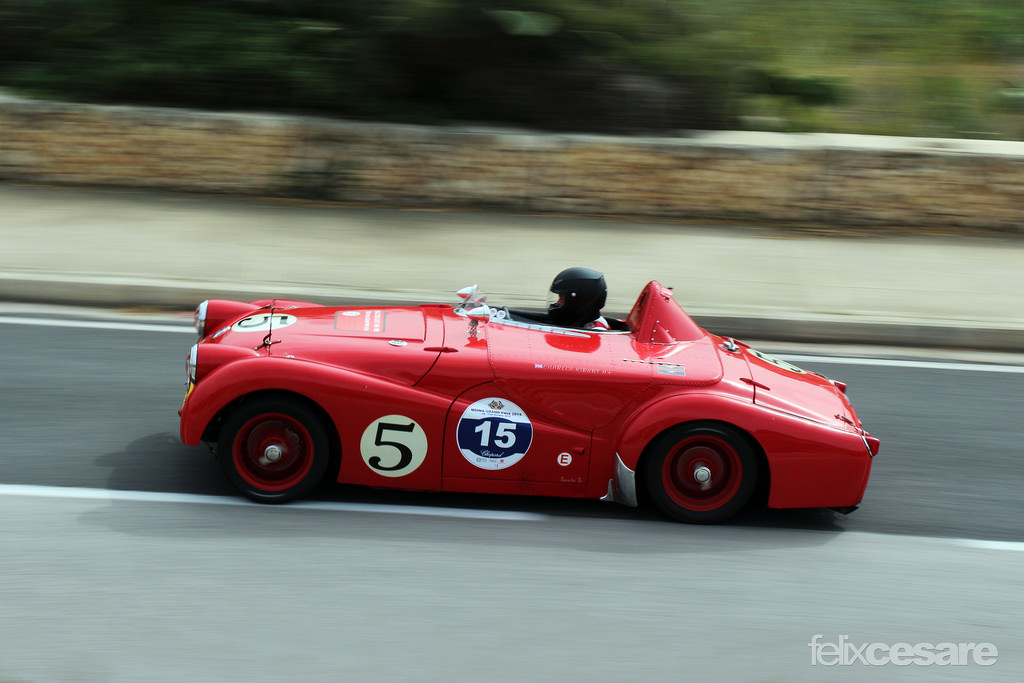 Still racing today at the Malta Classic Grand Prix